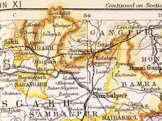 Sakti-Raigarh area of the Imperial Gazetteer of India Map